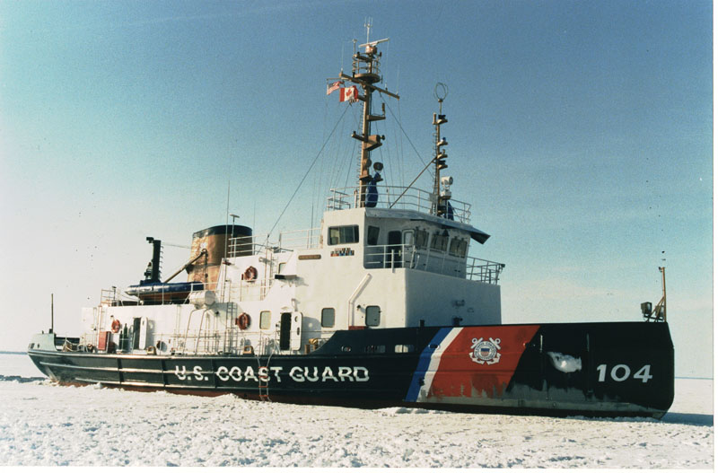 U.S. Coast Guard ice breaker 'Biscayne Bay'. Used in GLERL CoastWatch ice research. 1997. 1022.jpg